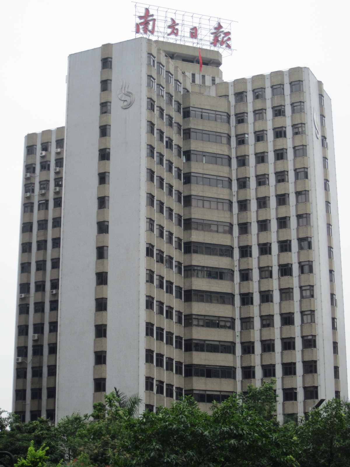 Southern newspaper media group